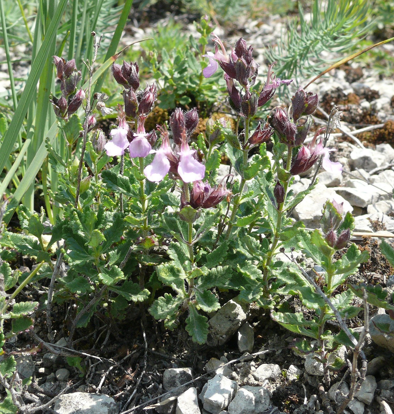 Teucrium chamaedrys, Tauberland, Germany